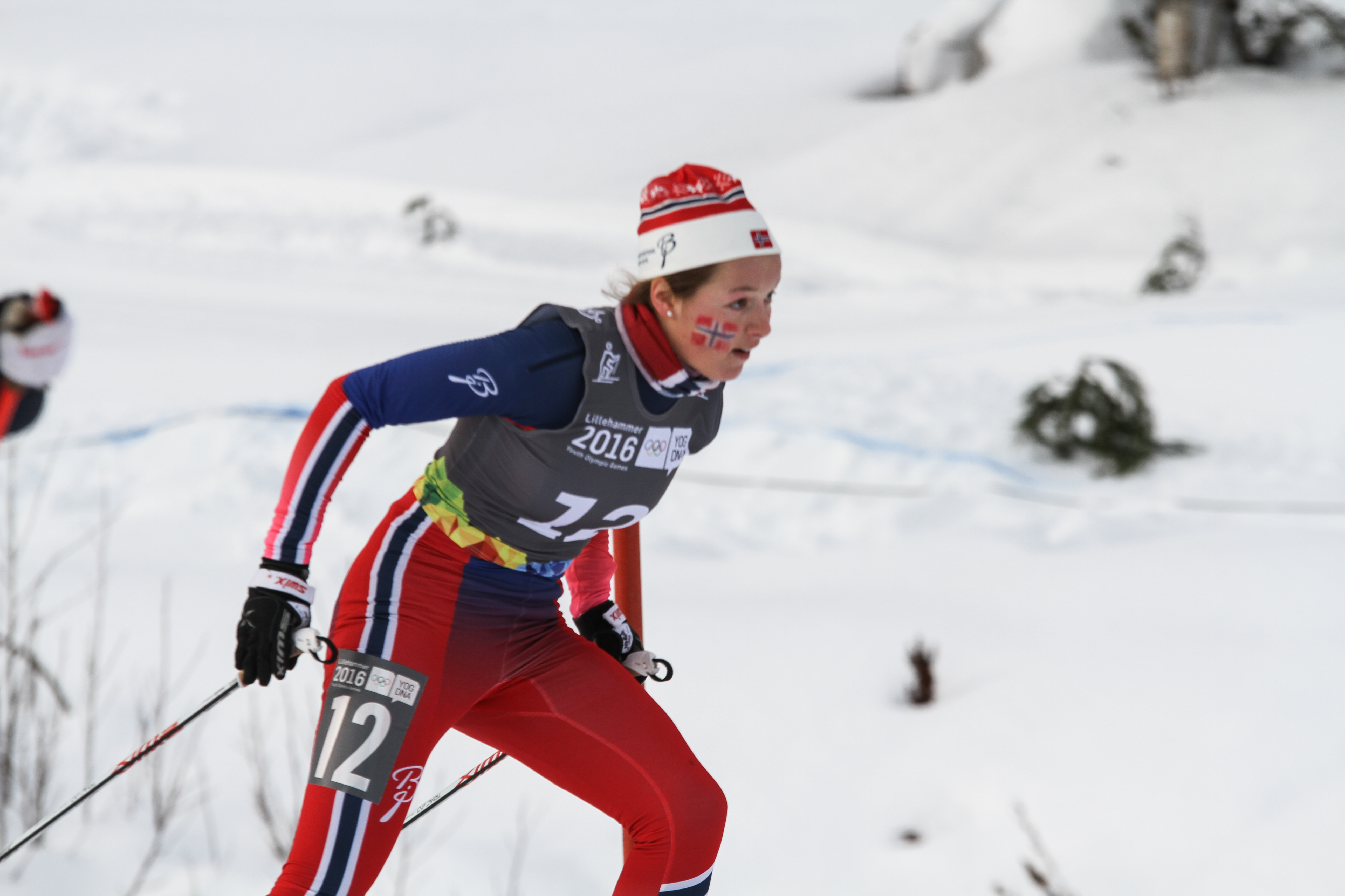 Norwegian cross country skier Nora Ulvang in the Girls' cross-country cross competition.